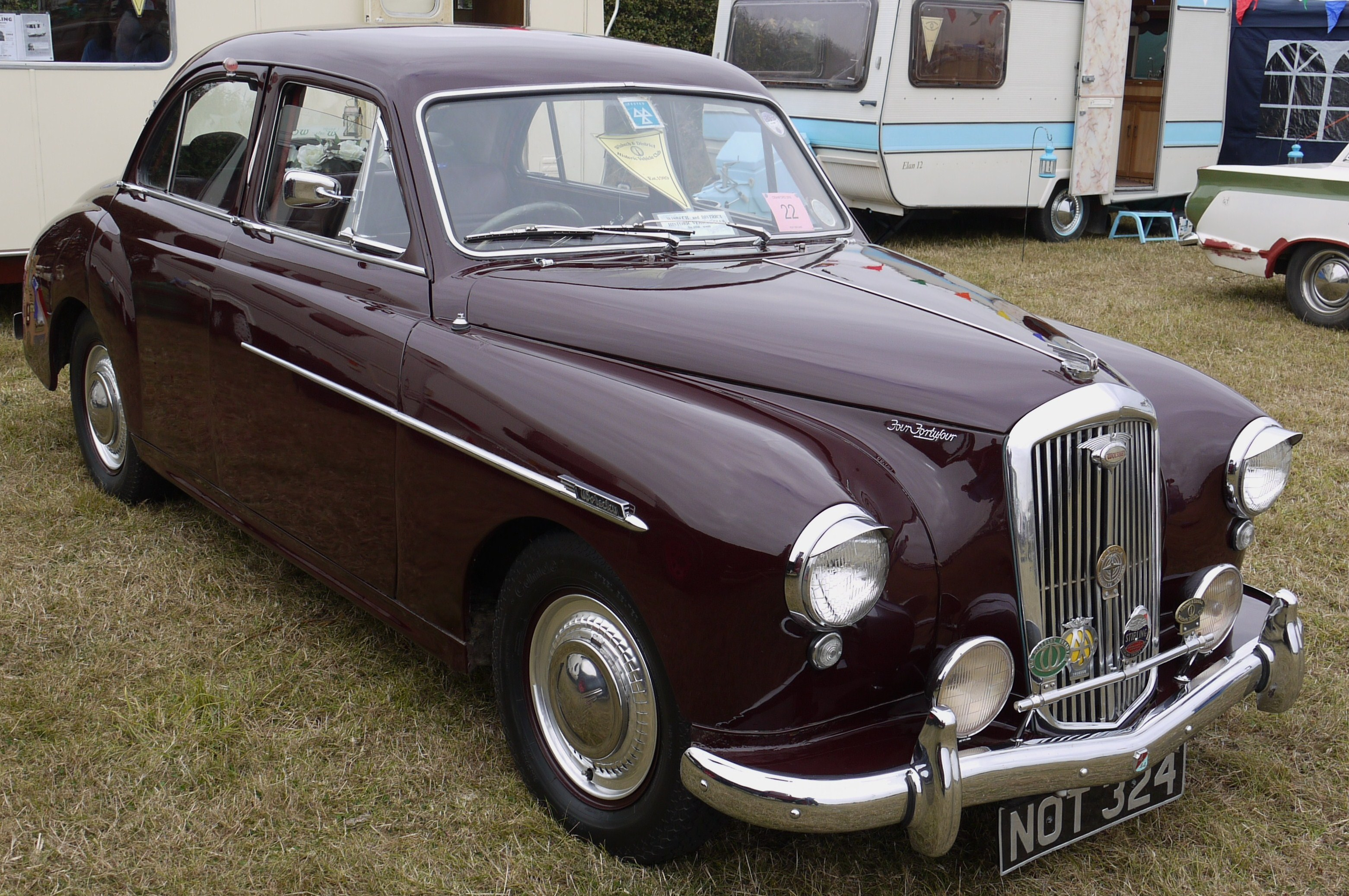 1955 Wolseley four forty-four (DVLA) first reg 4 April 1955, 1250ccPanasonic G1 14-45 Lens